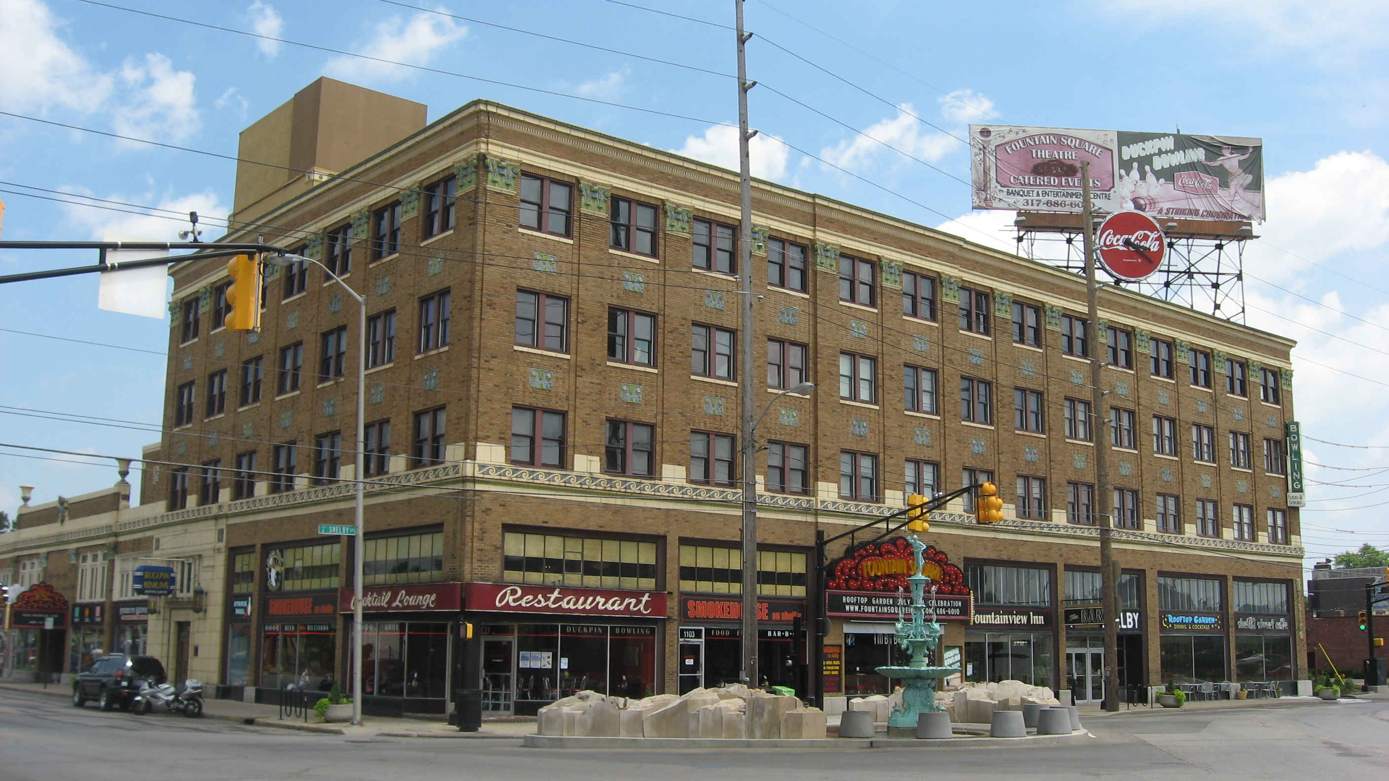 Front and northern side of the Fountain Square Theatre, located at 1101-1115 Shelby Street in Indianapolis, Indiana, United States. Built in 1928, it is a part of the Virginia Avenue District, a historic district that is listed on the National Register of Historic Places.